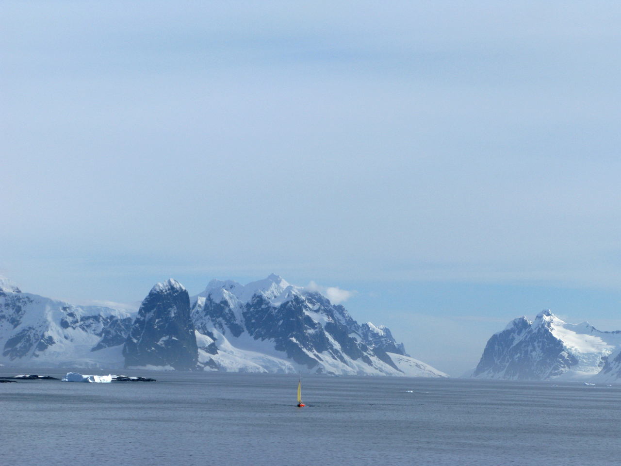 Renard Cape on the left, Booth Island on the right, between them : Le Maire Channel